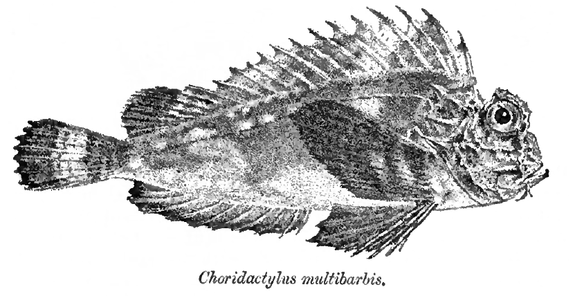 Choridactylus multibarbis [sic] = Choridactylus multibarbus Richardson, 1848